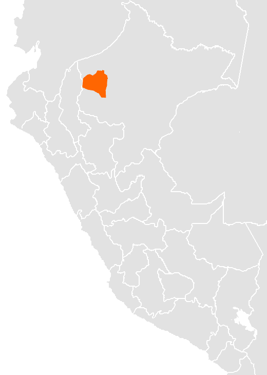 Candoshi language in North Perú, Sourcre: on data of Mary Ruth Wise "Small languages families and isolates in Peru" in The Amazonian Languages, Dixon & Alexandra Y. Aikhenvald (eds.), Cambridge: Cambridge University Press, 1999. p. 307-340. Also Ethnologue map of Peru